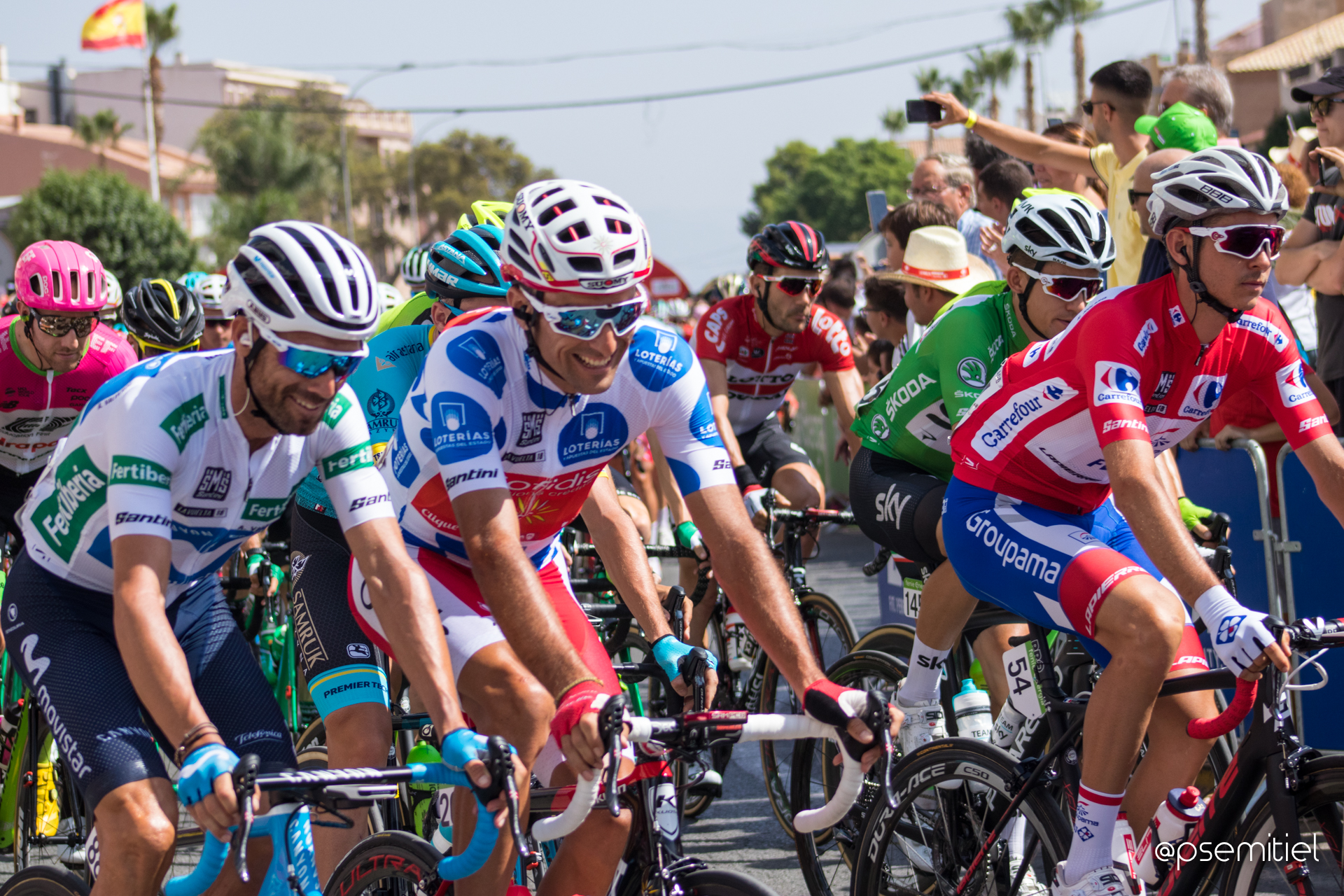 2018 Vuelta a España, Stage 7